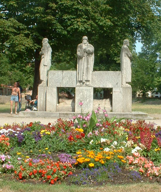 Langemarck monument in Ludwigshafen-Mundenheim